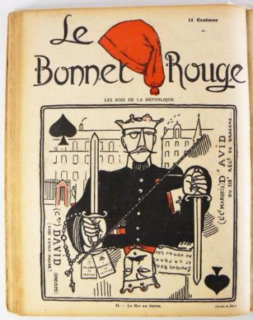 Cover of Le Bonnet Rouge